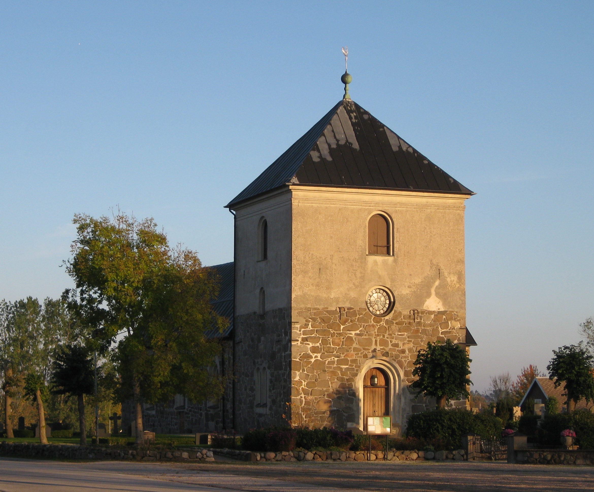 Östraby church, Scania, Sweden